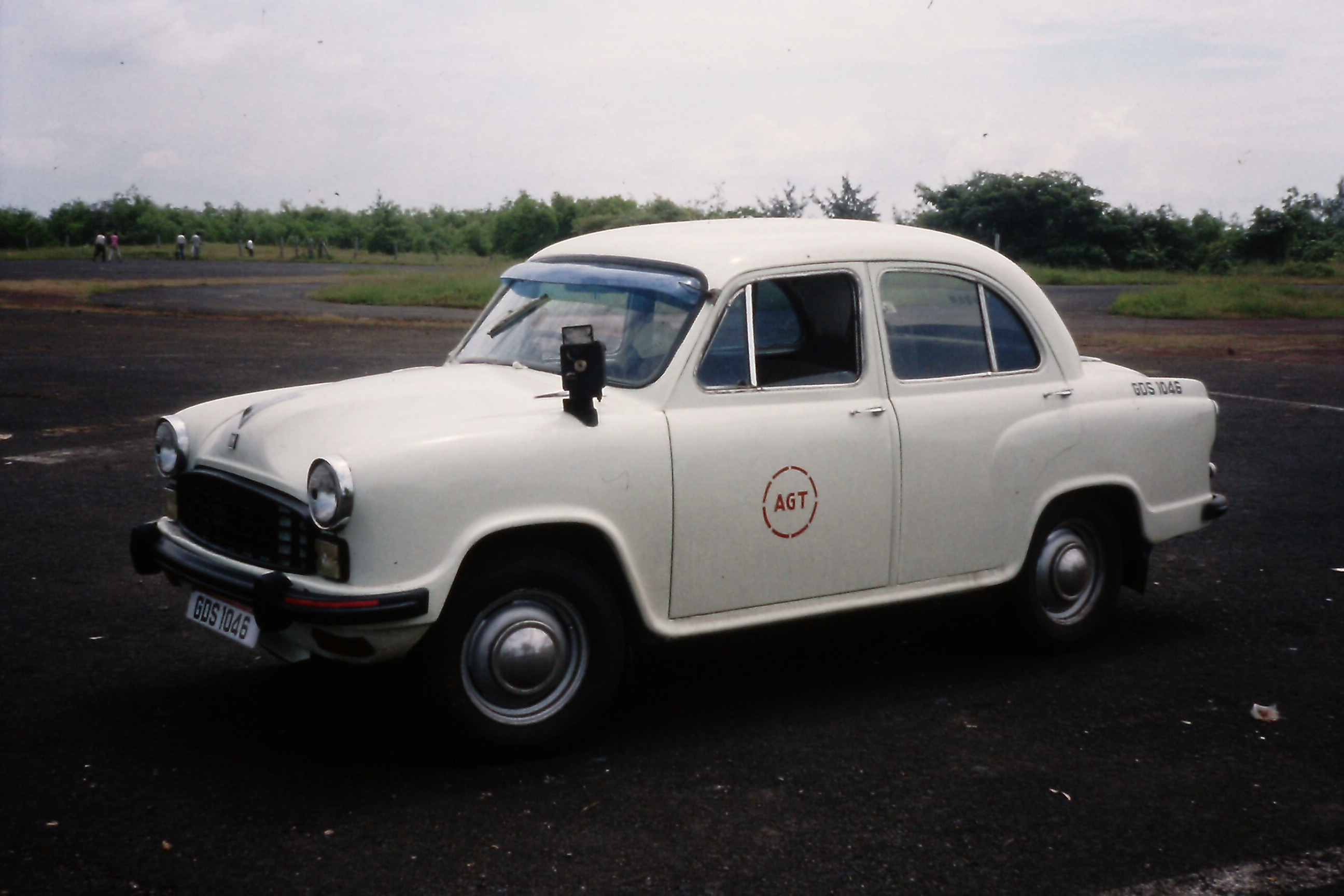 Hindustan Ambassador Taxi in Goa India, October 1994